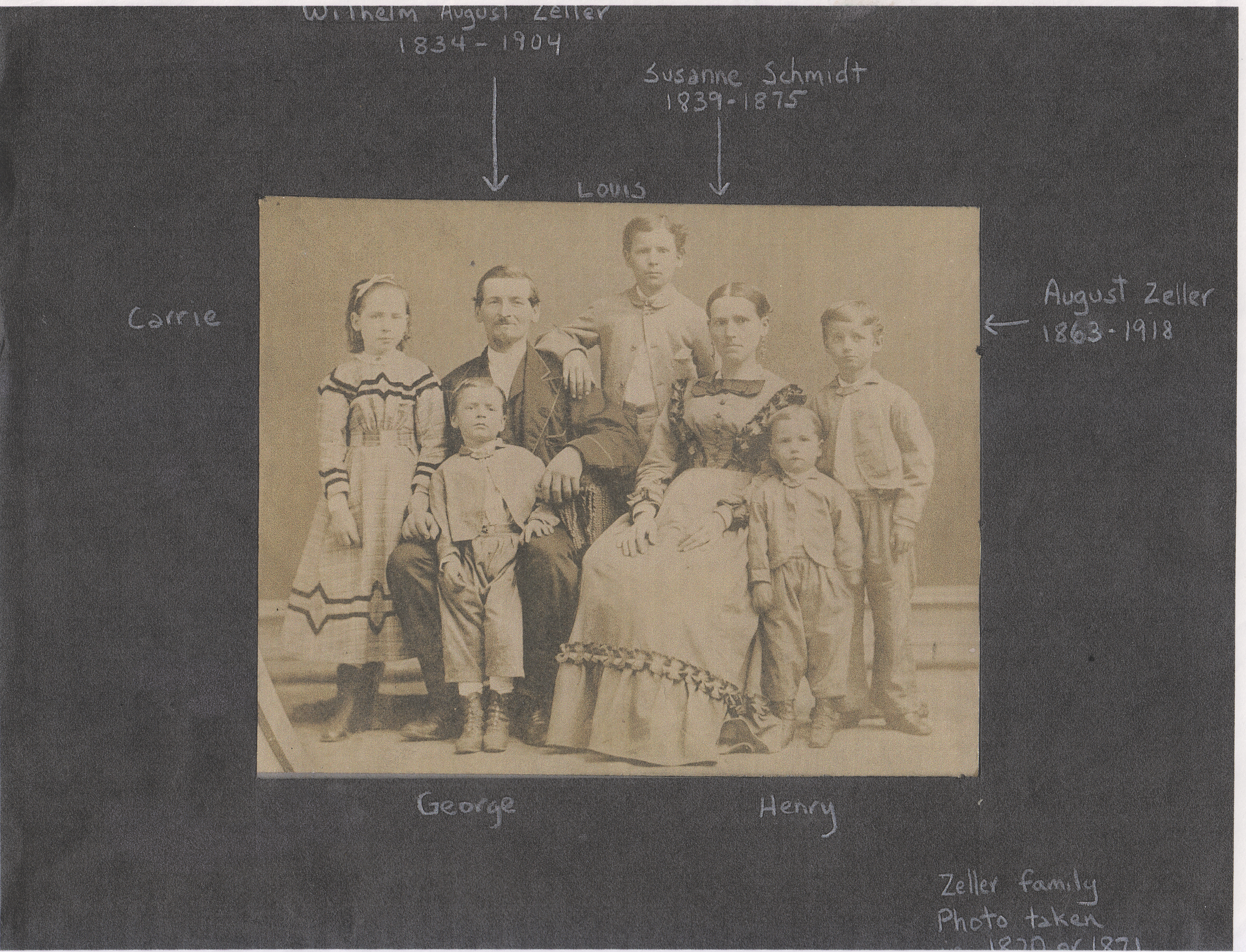 August Zeller (far right in photo) at age 7-8 in a family portrait from 1870-1871.